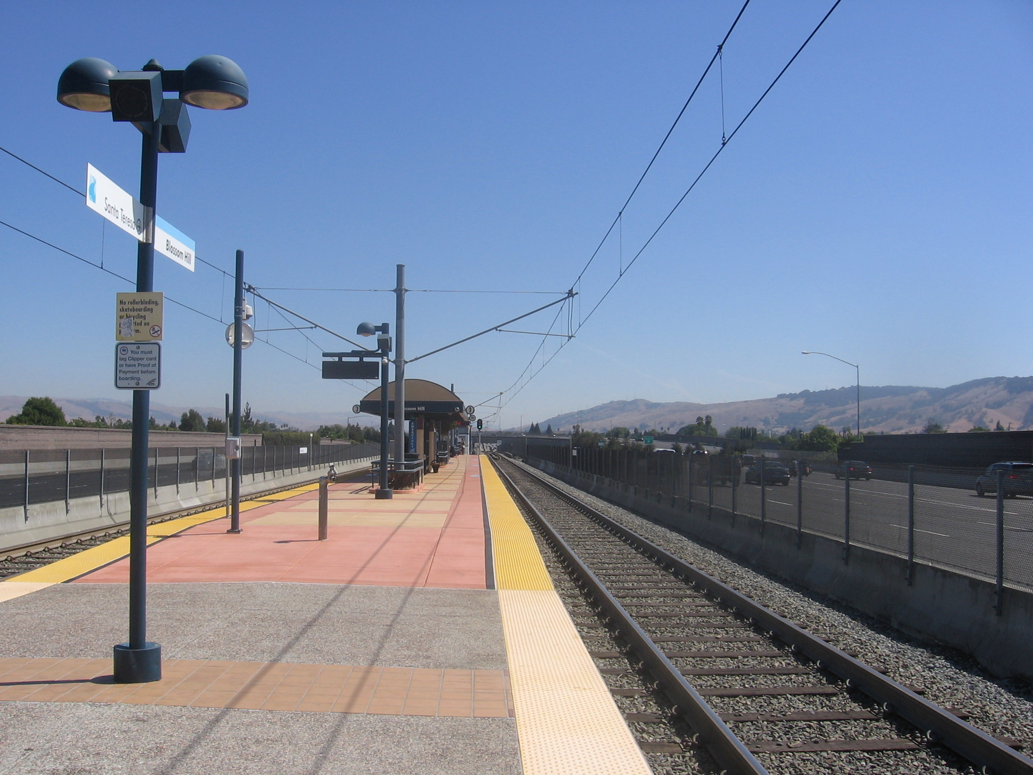 The center platform of the Blossom Hill (VTA) station. View is looking east-southeast from the median of SR 85 toward the overpass of the eponymous Blossom Hill Road.